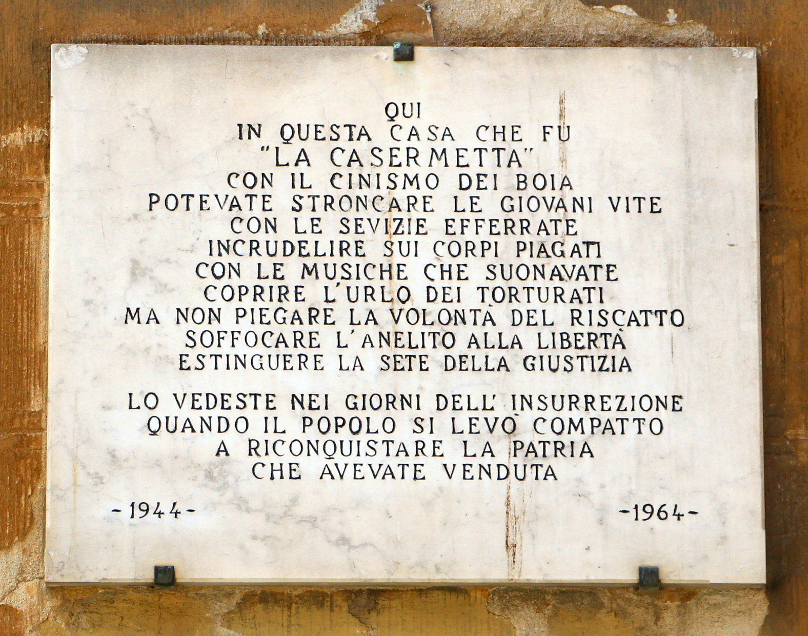 Streets in Siena